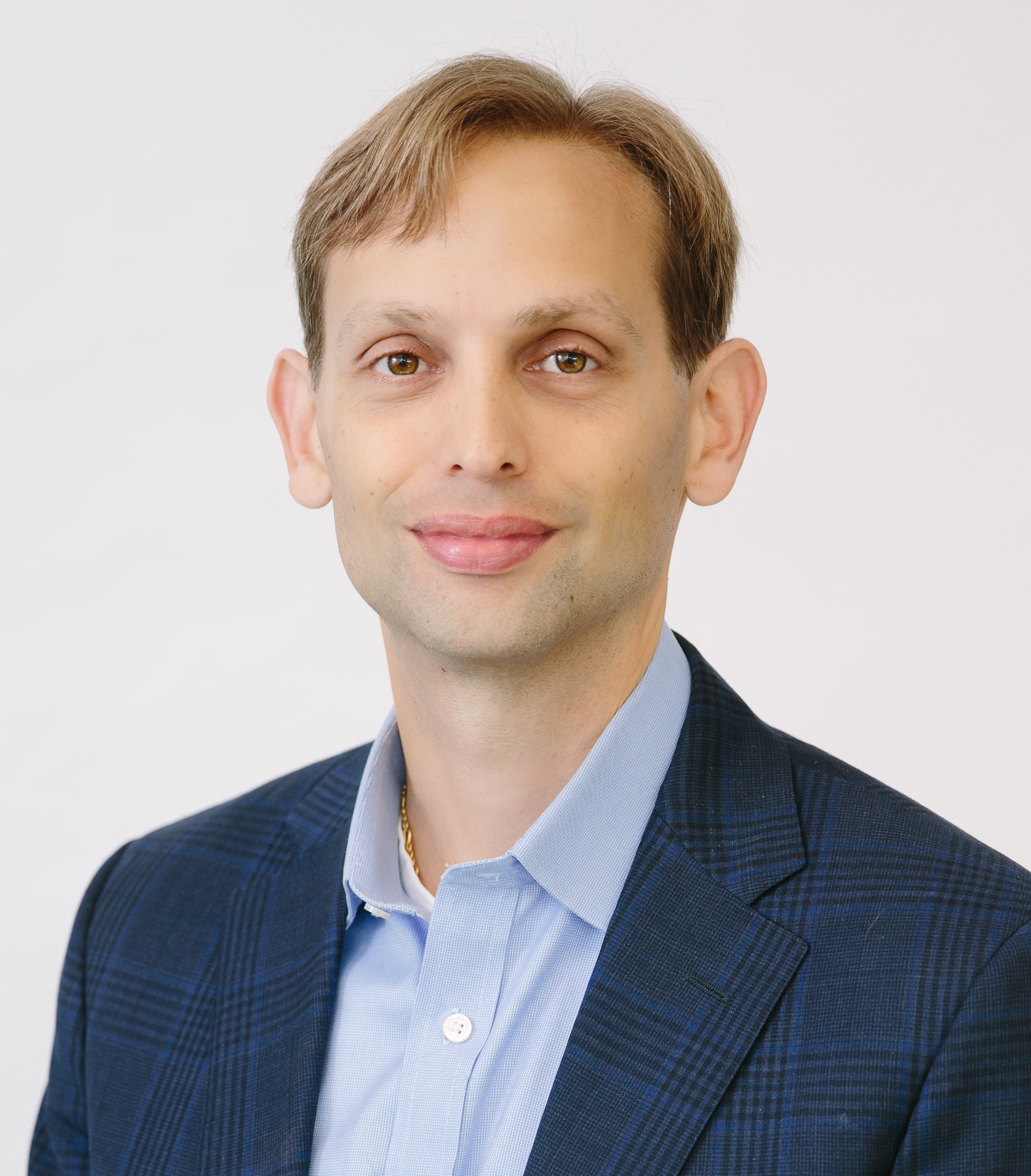 David Berry speaker picture